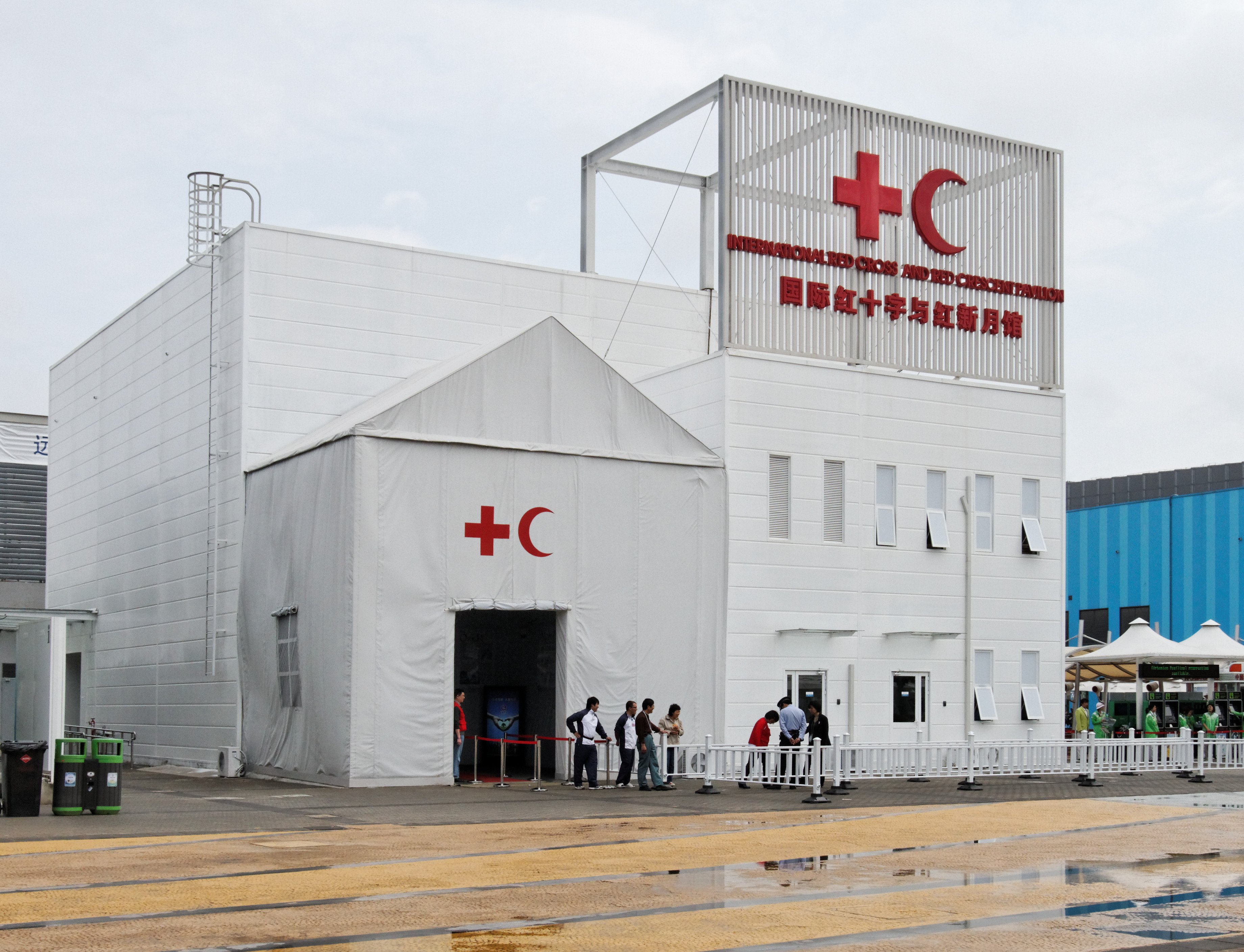 International Red Cross and Red Crescent (IFRC) Pavilion of Expo 2010